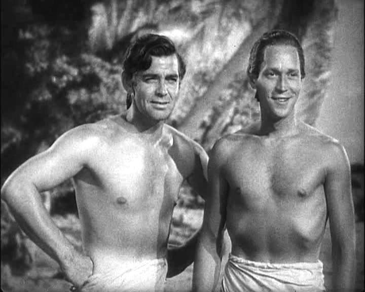 Clark Gable and Franchot Tone in a screenshot from the trailer for the film Mutiny on the Bounty.